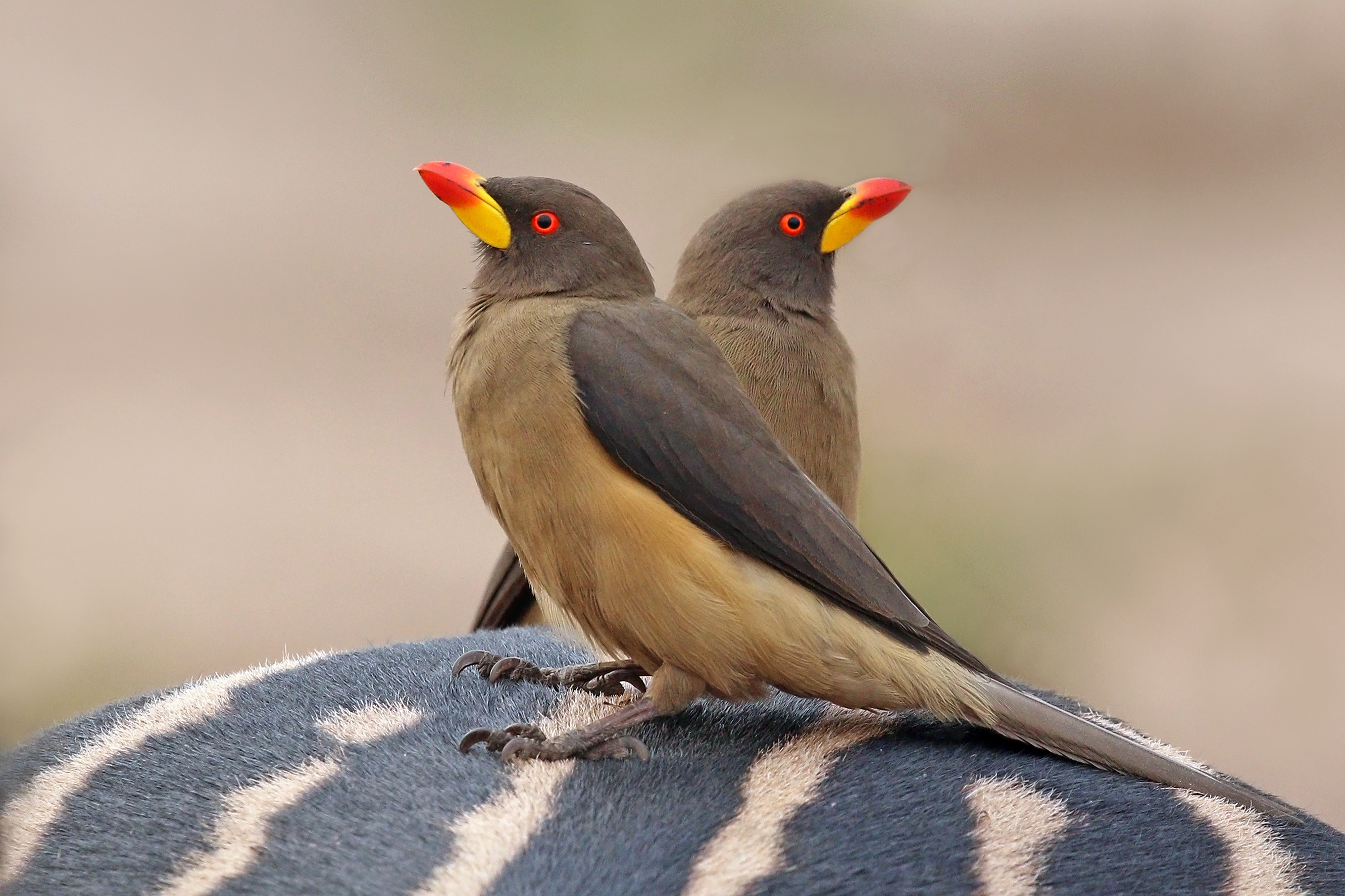 Yellow-billed oxpeckers (Buphagus africanus africanus) on zebra, Senegal